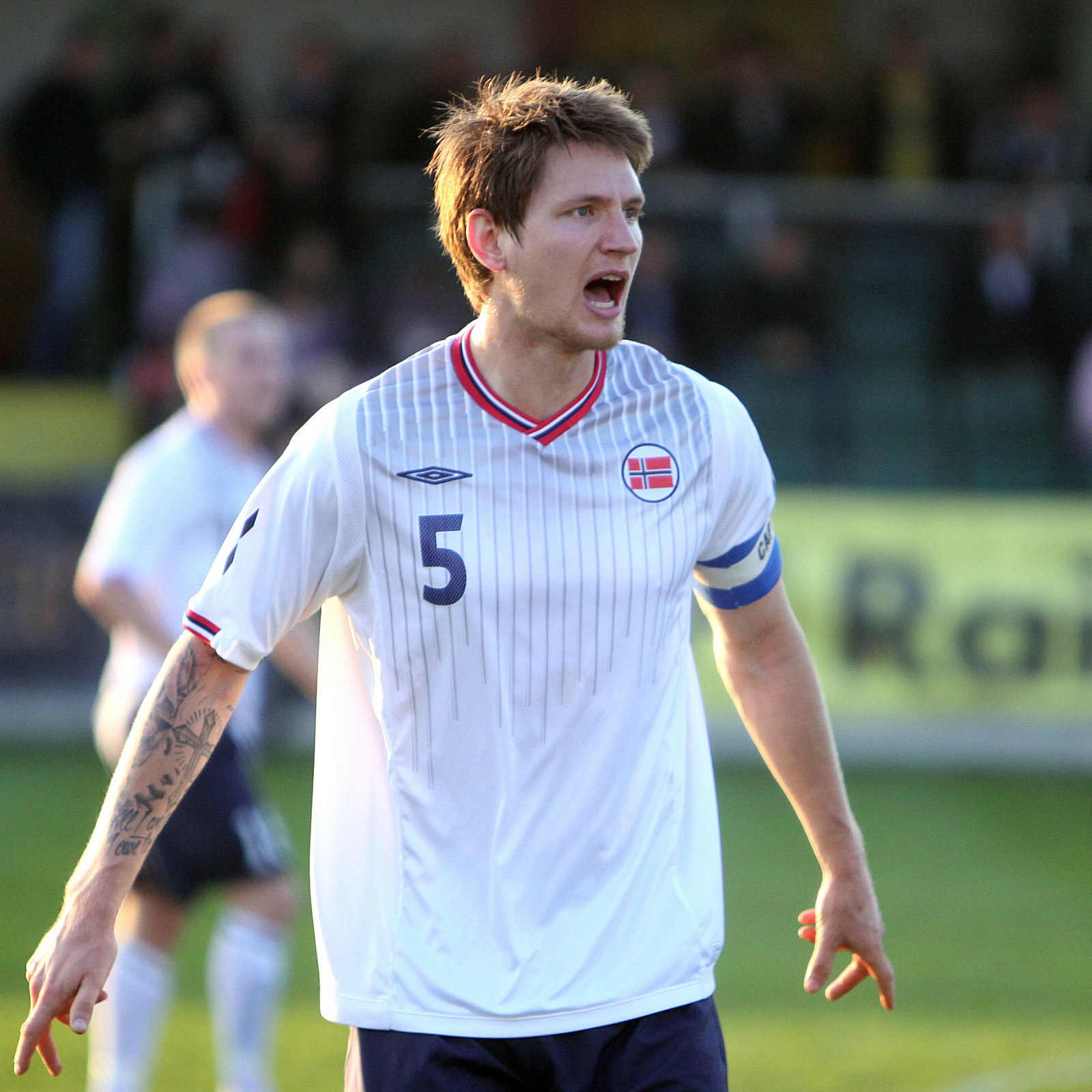 Stefan Strandberg (Vålerenga Oslo) in the Norway national under-21 football team, 2011-03-29